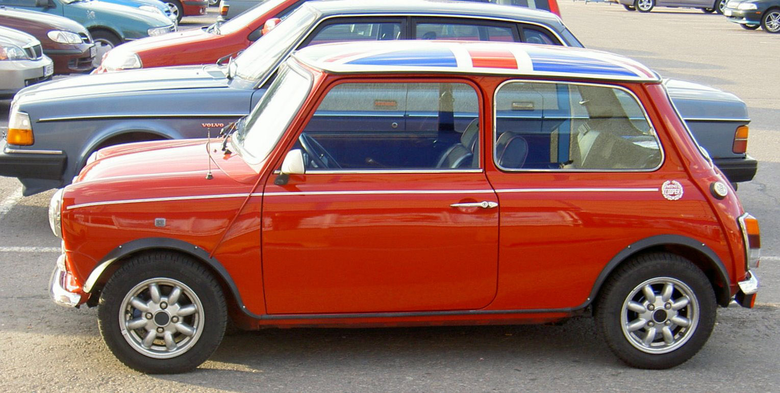 Morris Mini Cooper